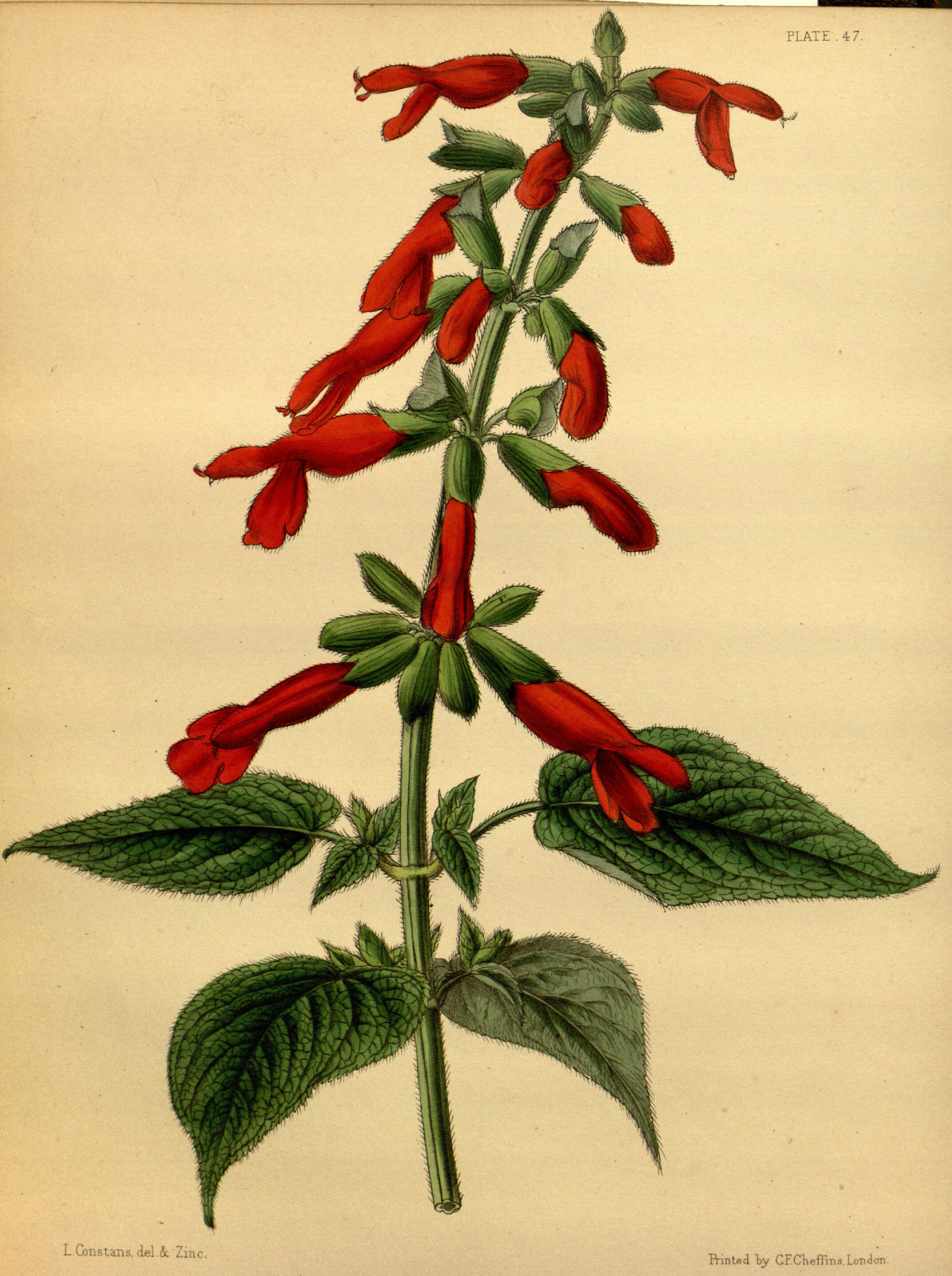 Salvia gesneriiflora Lindl. & Paxton